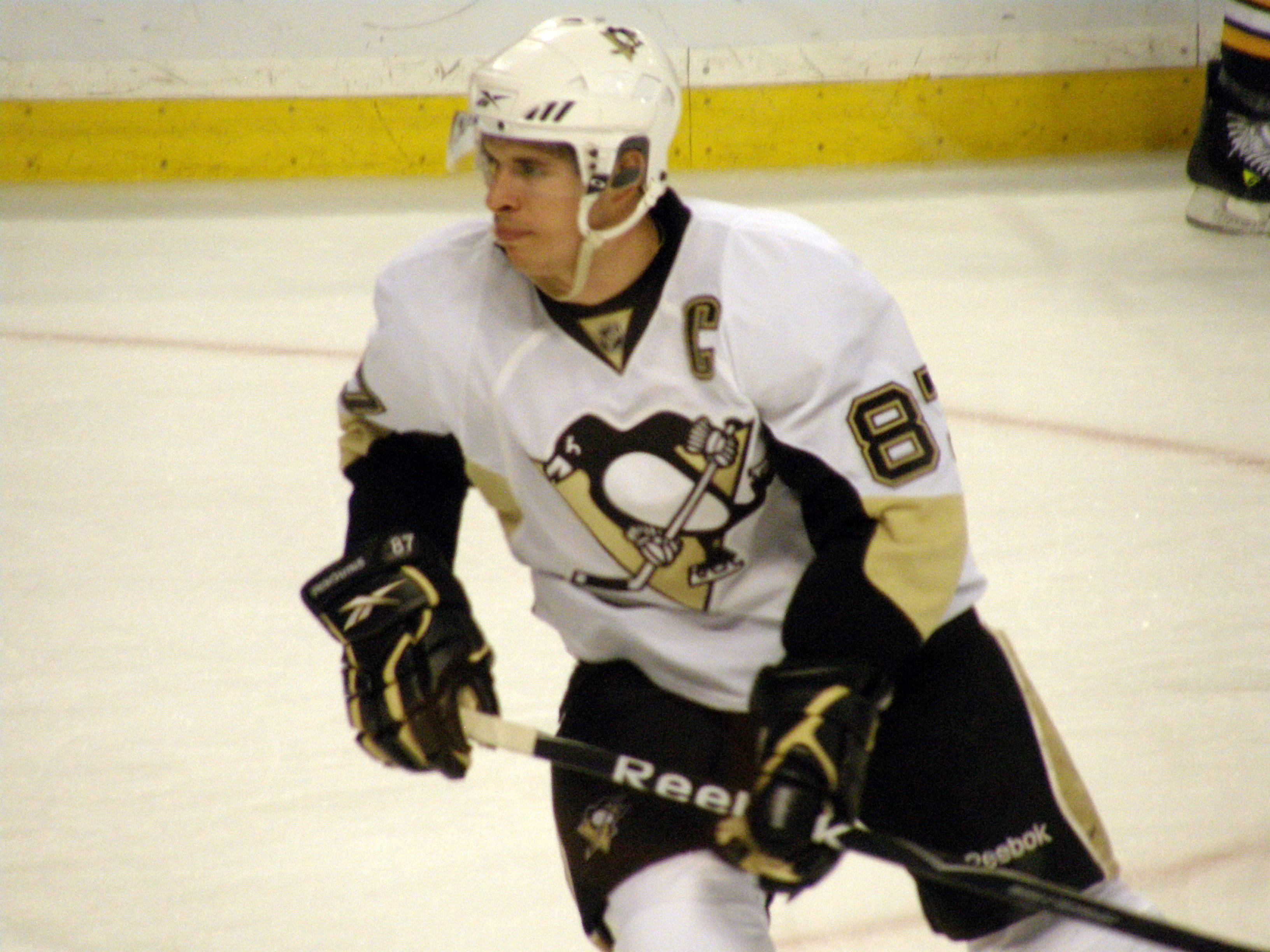 87, Sidney Crosby, C, PIT Pittsburgh Penguins at (vs) Boston Bruins, TD Banknorth Garden (Boston Garden), March 18, 2010